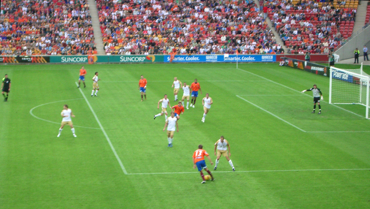 Own, original photo, taken at Suncorp Stadium during October 2006.